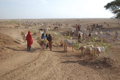 Denan people use castle and farms to support their live